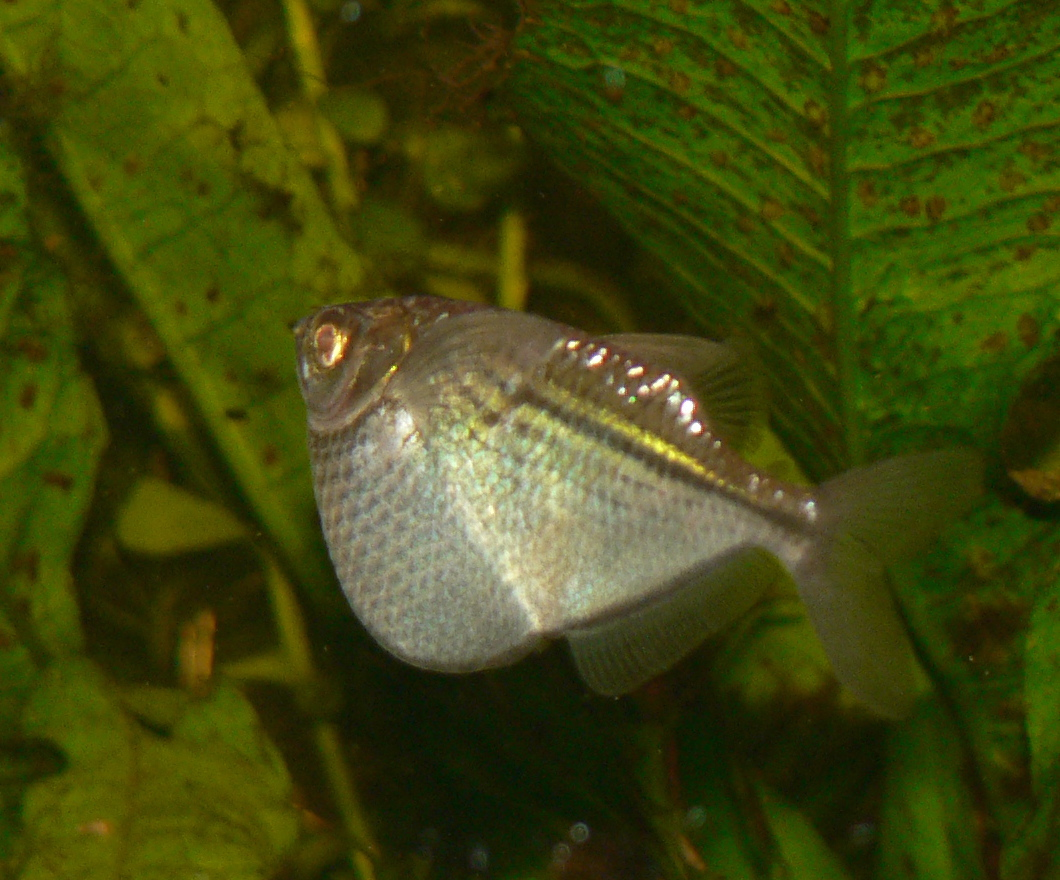 Gasteropelecus sternicla, aquarium specimen. Adult, about 4 cm long. Known variously as "silver hatchetfish" and "common (freshwater) hatchetfish". Category:Characiformes images